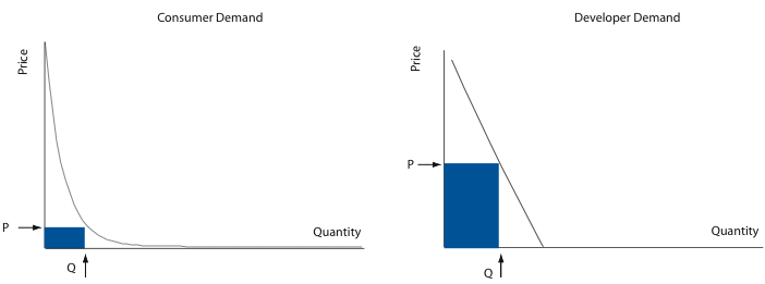 Eisenmann, Parker, Van Alstyne